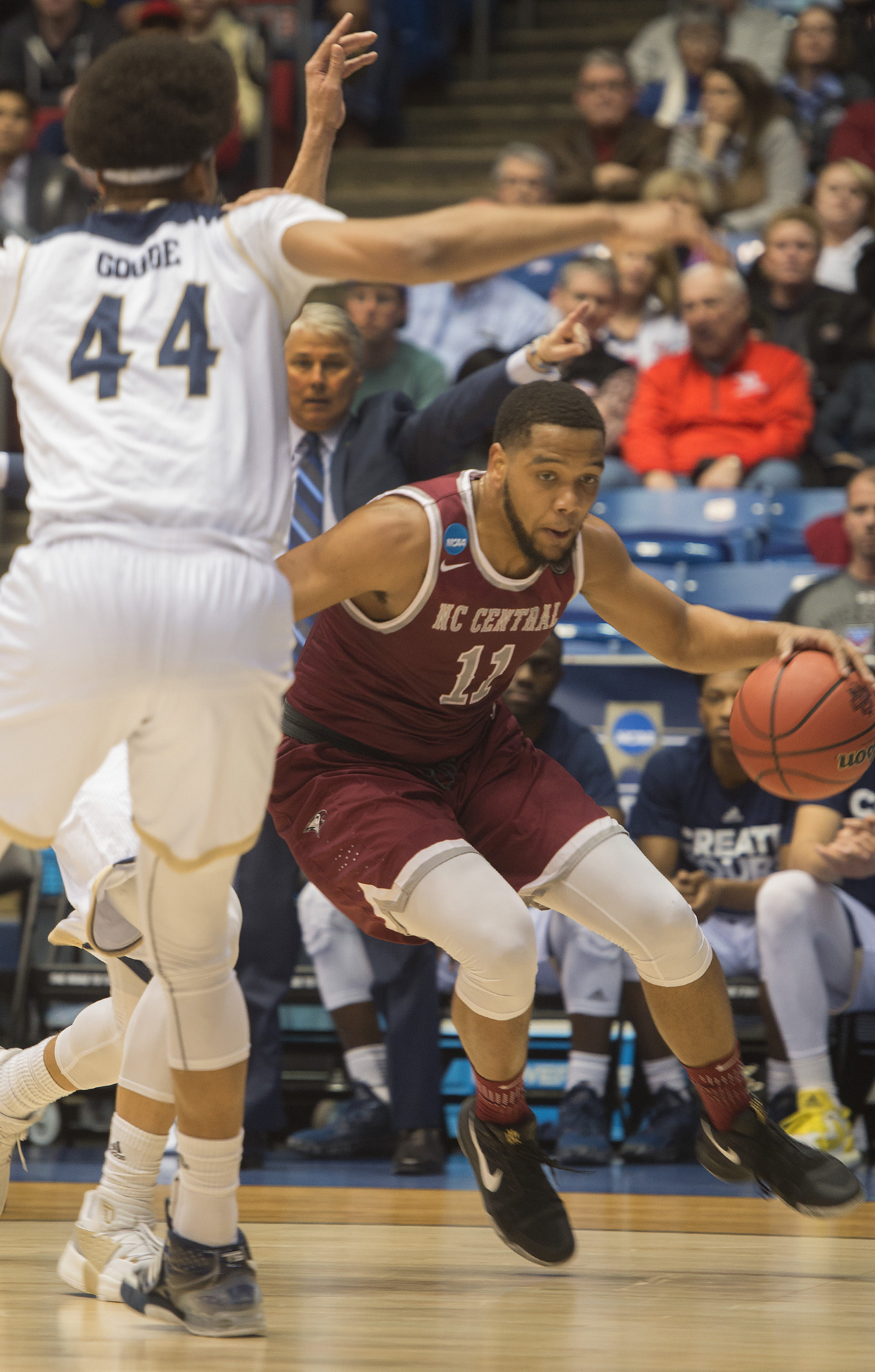 North Carolina Central’s Patrick Cole works to get past University of California Davis’s Garrison Goode and other defenders in their NCAA First Four tournament game at the University of Dayton Arena March 15, 2017. Airman from Wright-Patterson Air Force Base took part in pregame ceremonies prior to the match to decide who would advance to the Round of 64 in the NCAA Division I Basketball Championship. UC Davis went on to win the match 67-63. (U.S. Air Force photo by R.J. Oriez/Released)